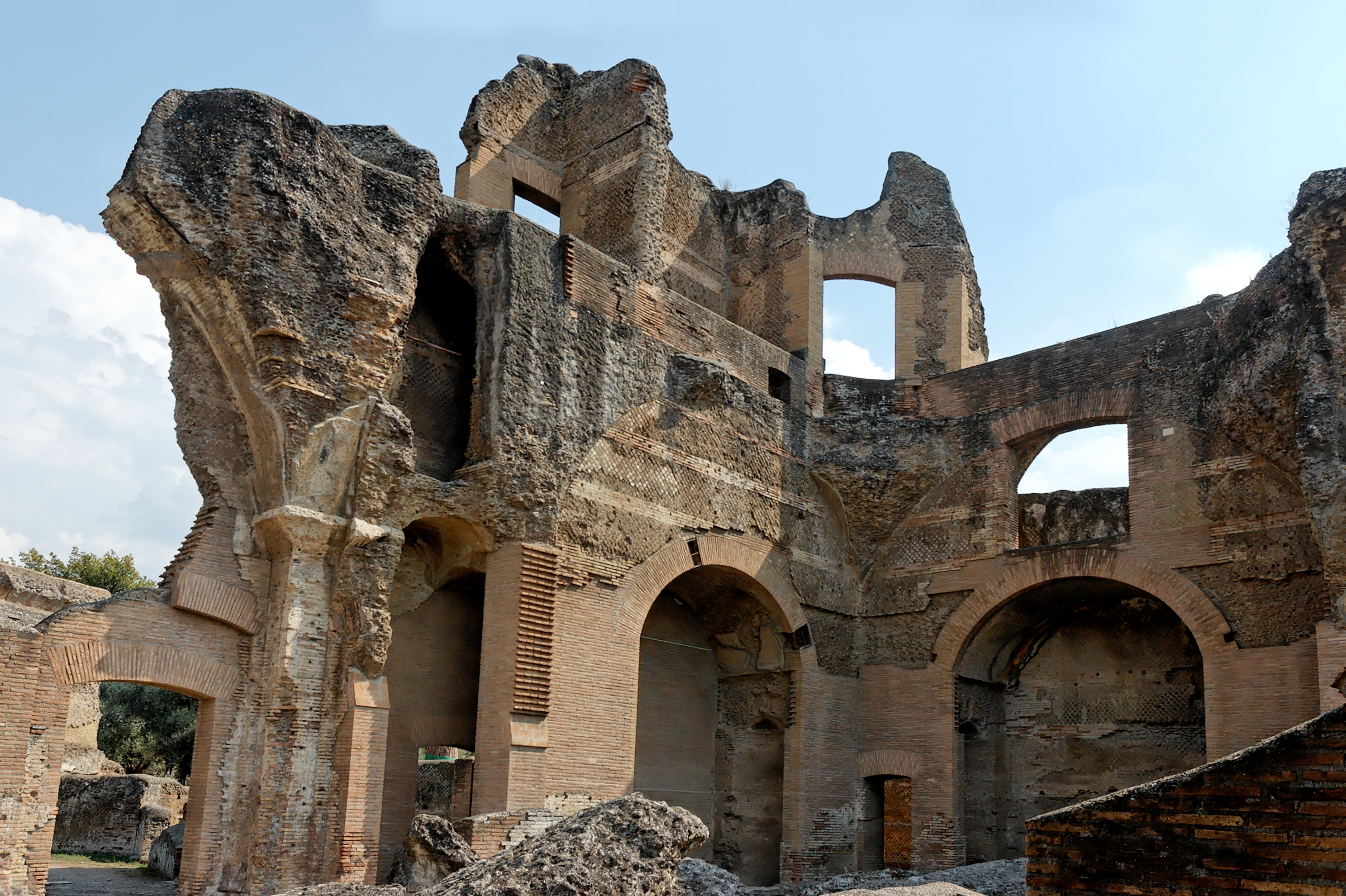 Greek Library at the Villa Adriana in Tivoli.